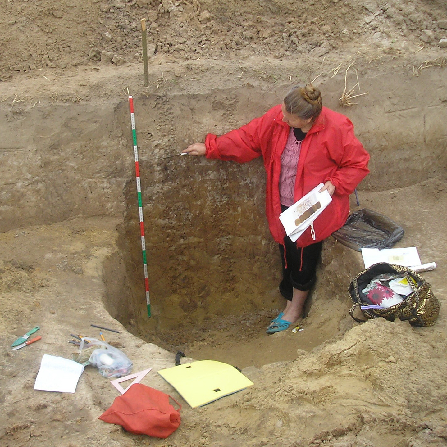 Ukrainian Palaeogeographer Zhanna Matviishyna during the study of burried soils of Trzciniec culture near Myropil, Zhytomyr Region, in 2012